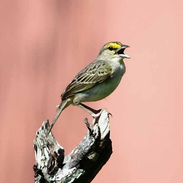 Yellow-browed Sparow at Presidente Figueiredo - AM - Brazil